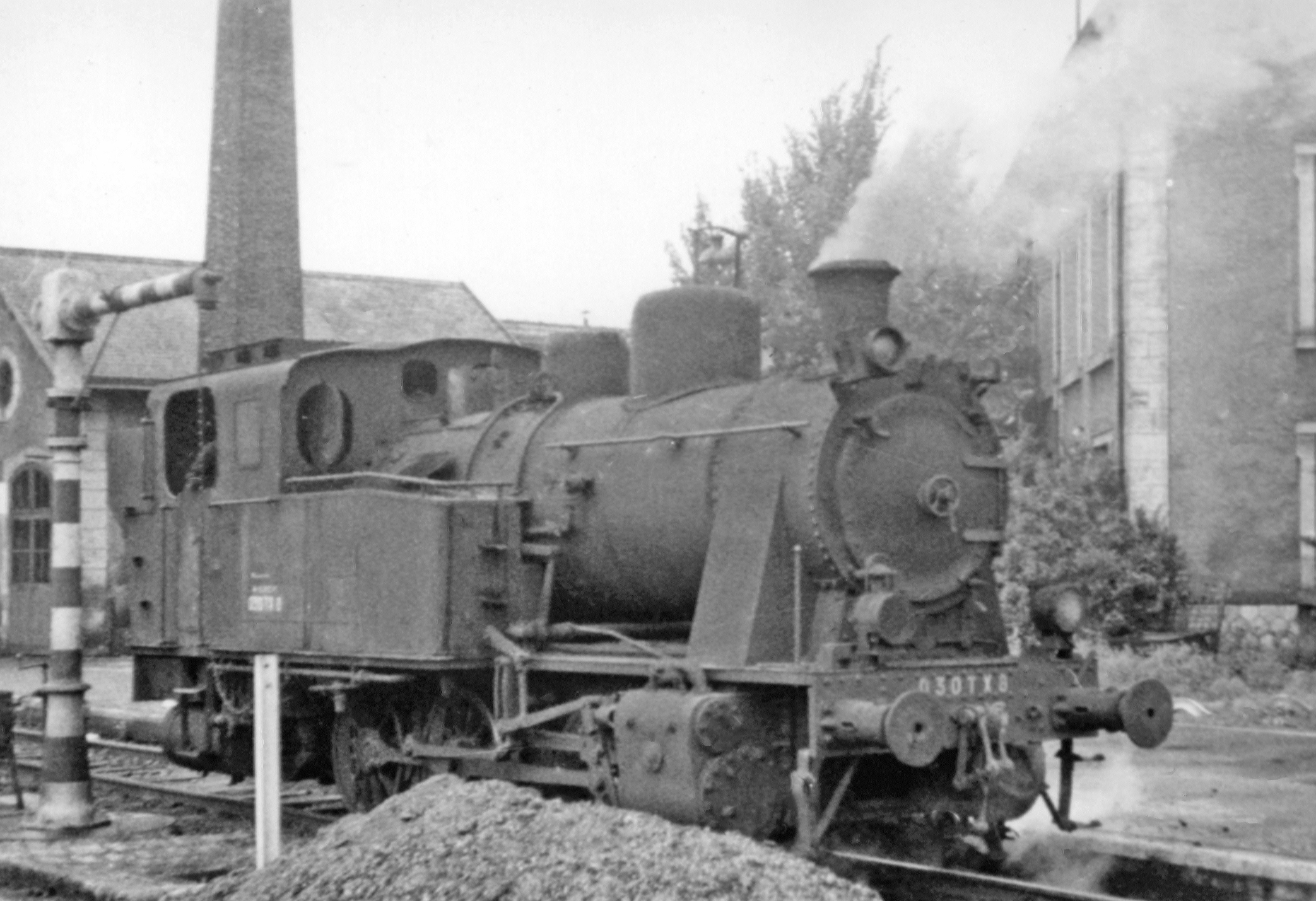 SNCF 0-6-0T at Périgueux (Dordogne), 1956